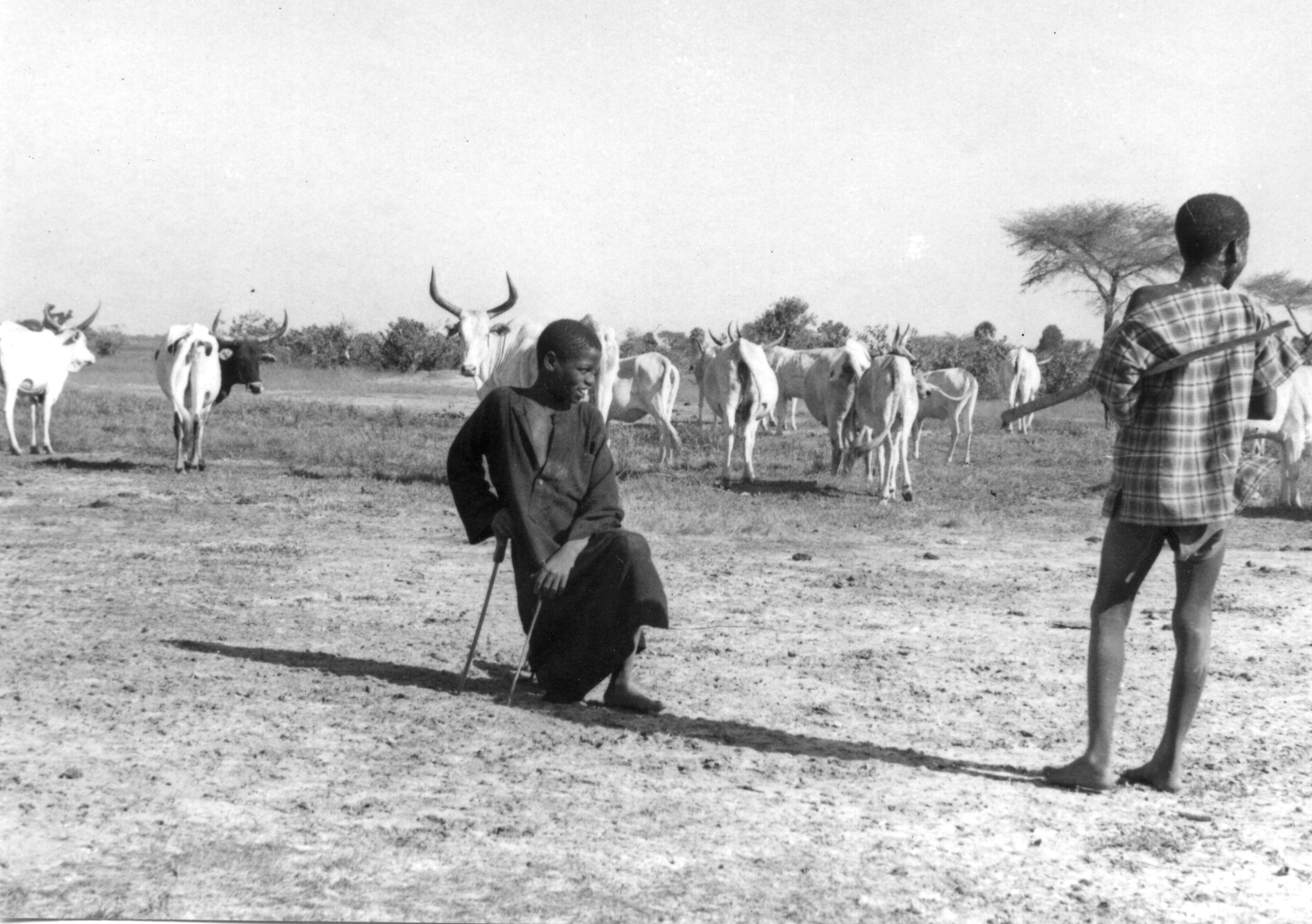 Fula cattle herders in Senegal. Photo taken in November, 1967